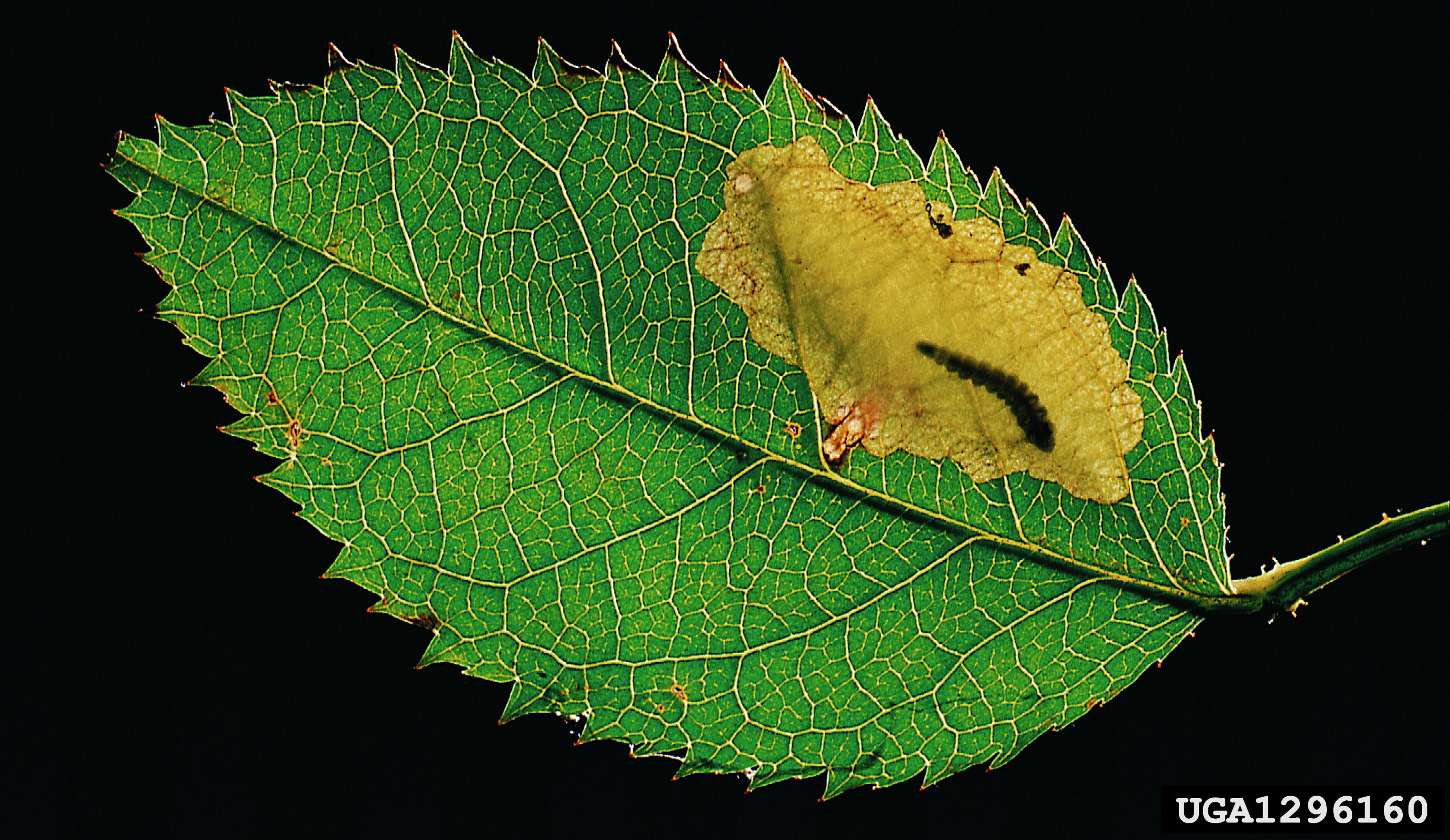 larva and mine of Tischeria angusticollella from Hungary